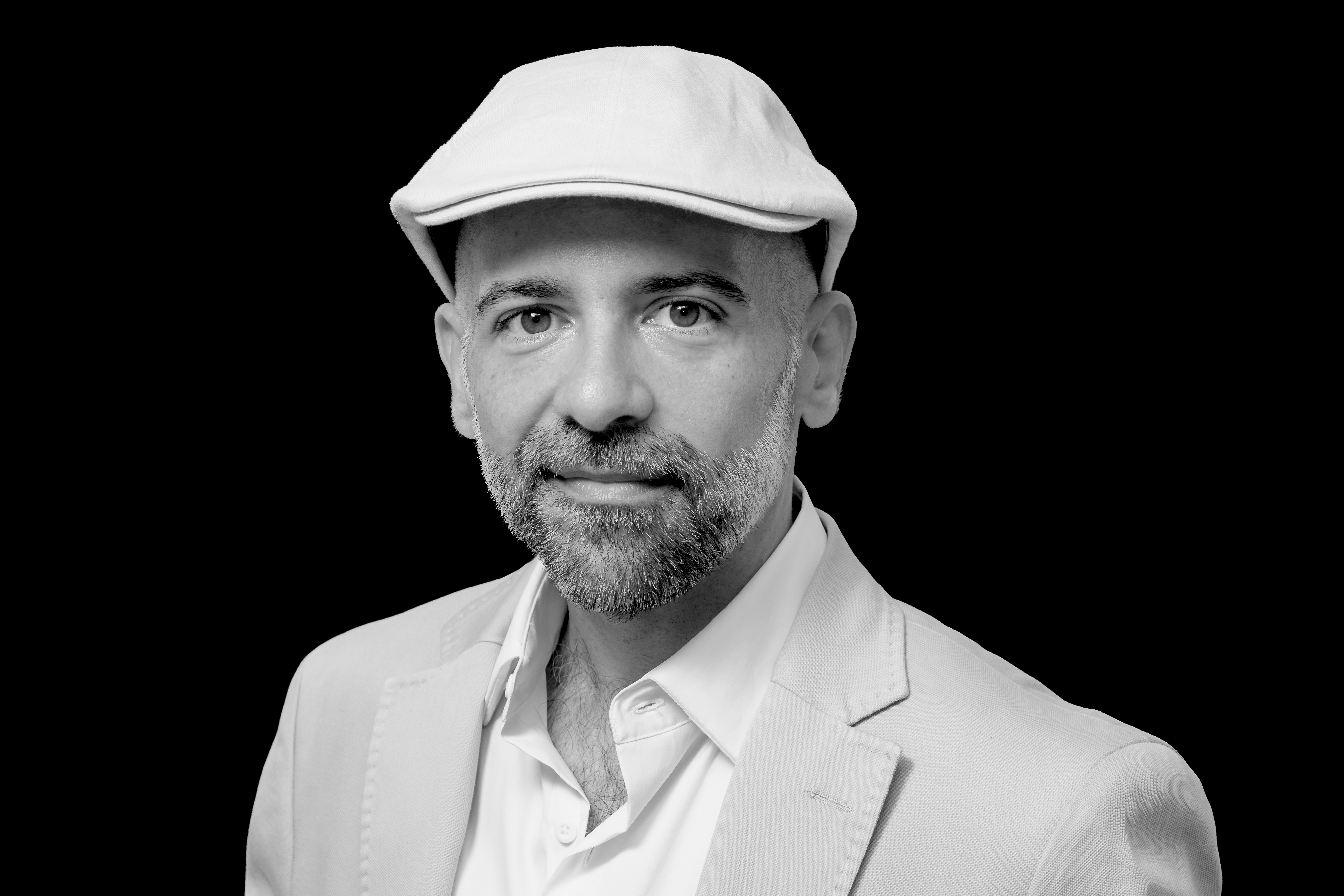 Tiago do Vale, Architect, as supplied on the biographic material on his website (updated biography and curriculum).